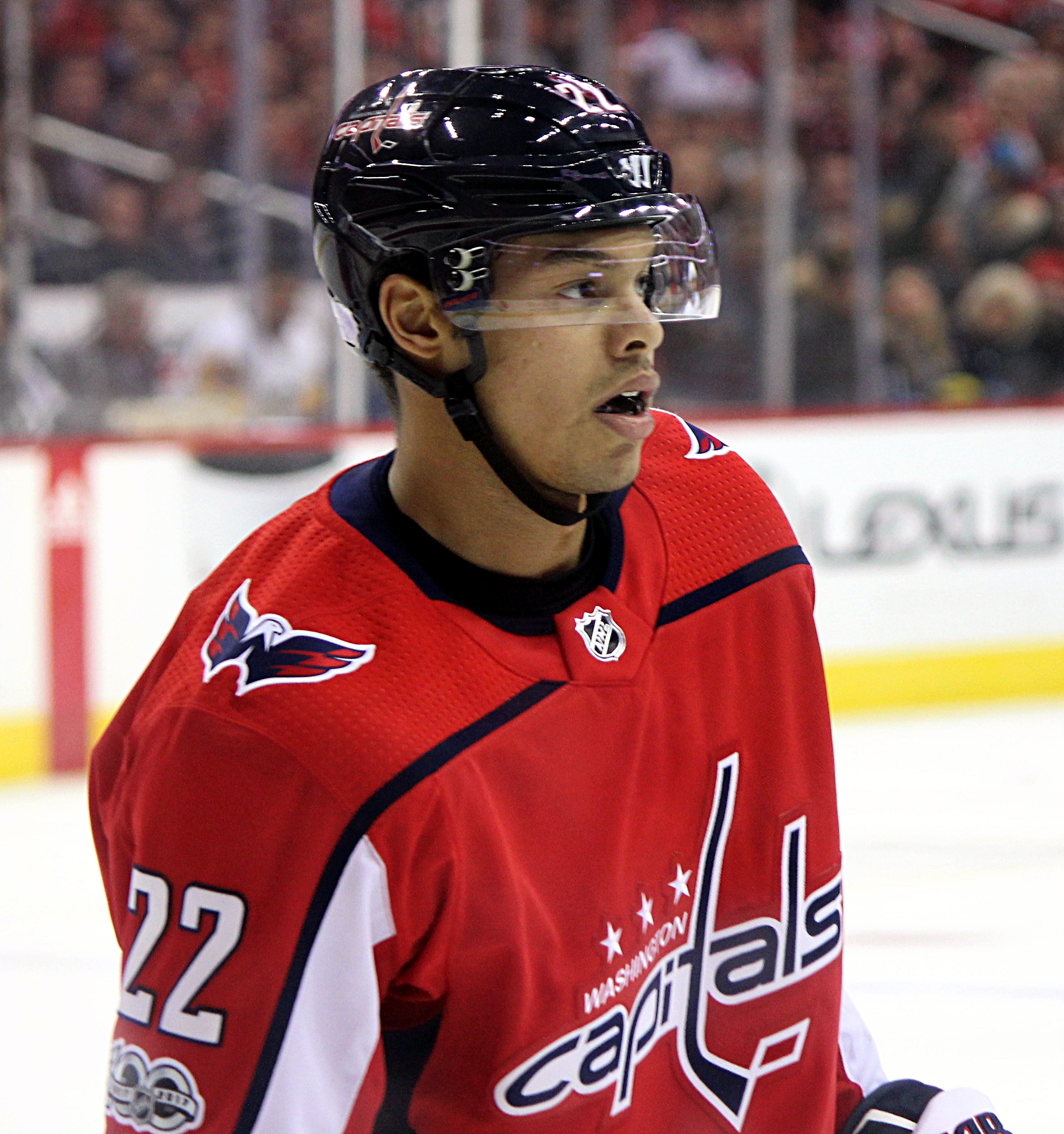 Washington Capitals defenseman Madison Bowey during a game against the Pittsburgh Penguins, November 10, 2017, at Capital One Arena in Washington, D.C.